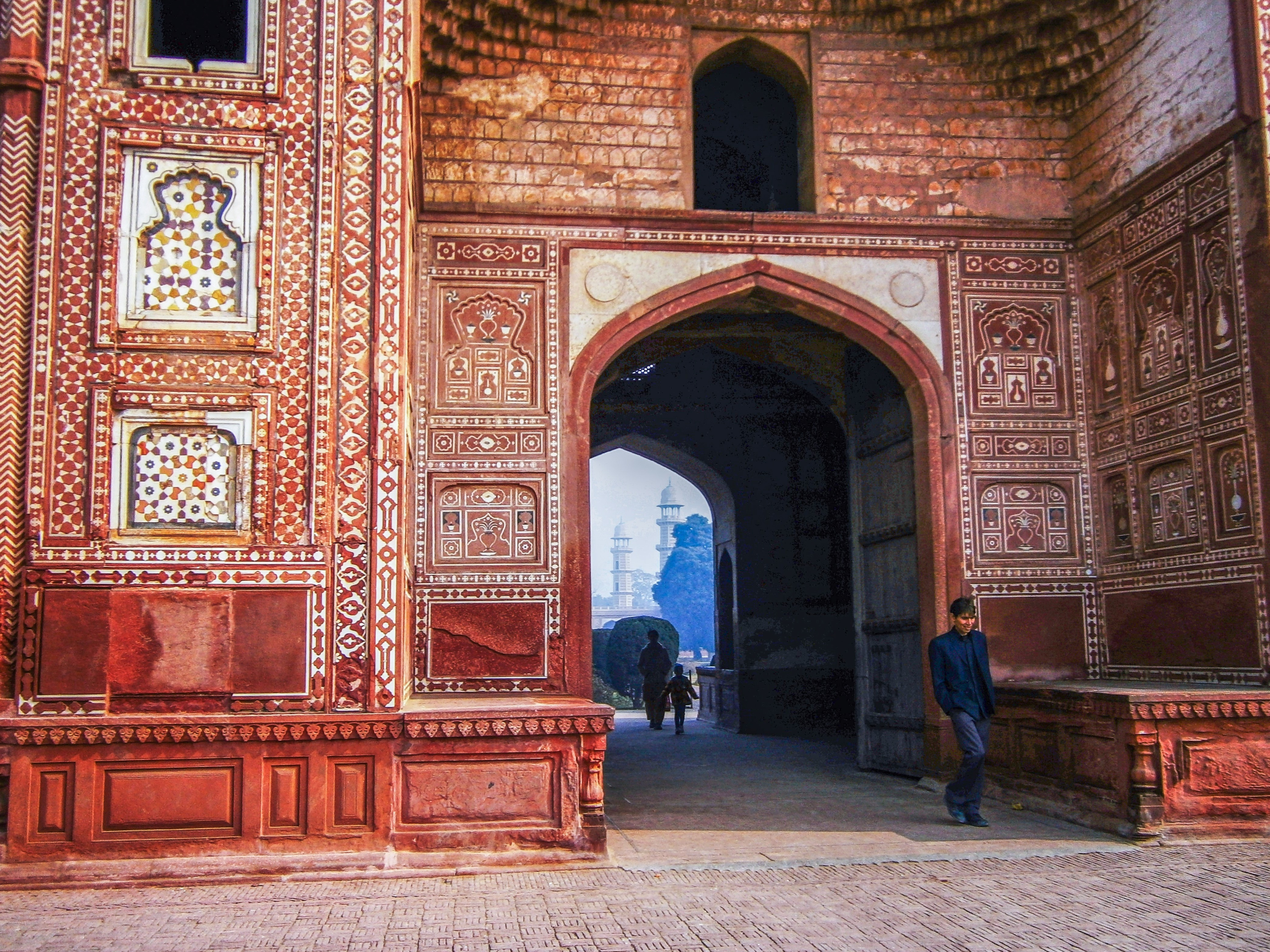 Jahangir’s Tomb and compound This is a photo of a monument in Pakistan identified as the PB-64